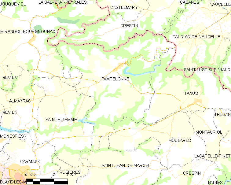 Map of French municipality Pampelonne